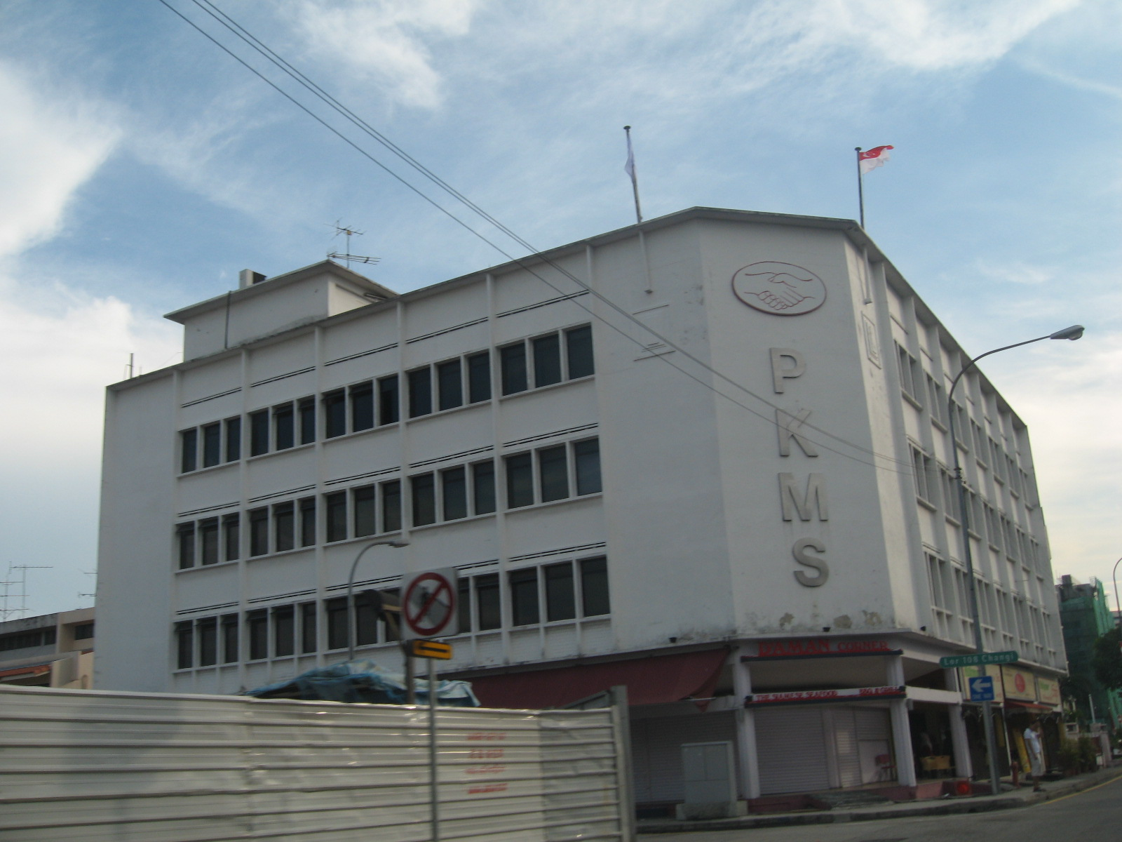 PKMS Building, the headquarters of the Pertubuhan Kebangsaan Melayu Singapura (Singapore Malay National Organisation), a political party, at 218 Changi Road, Singapore.